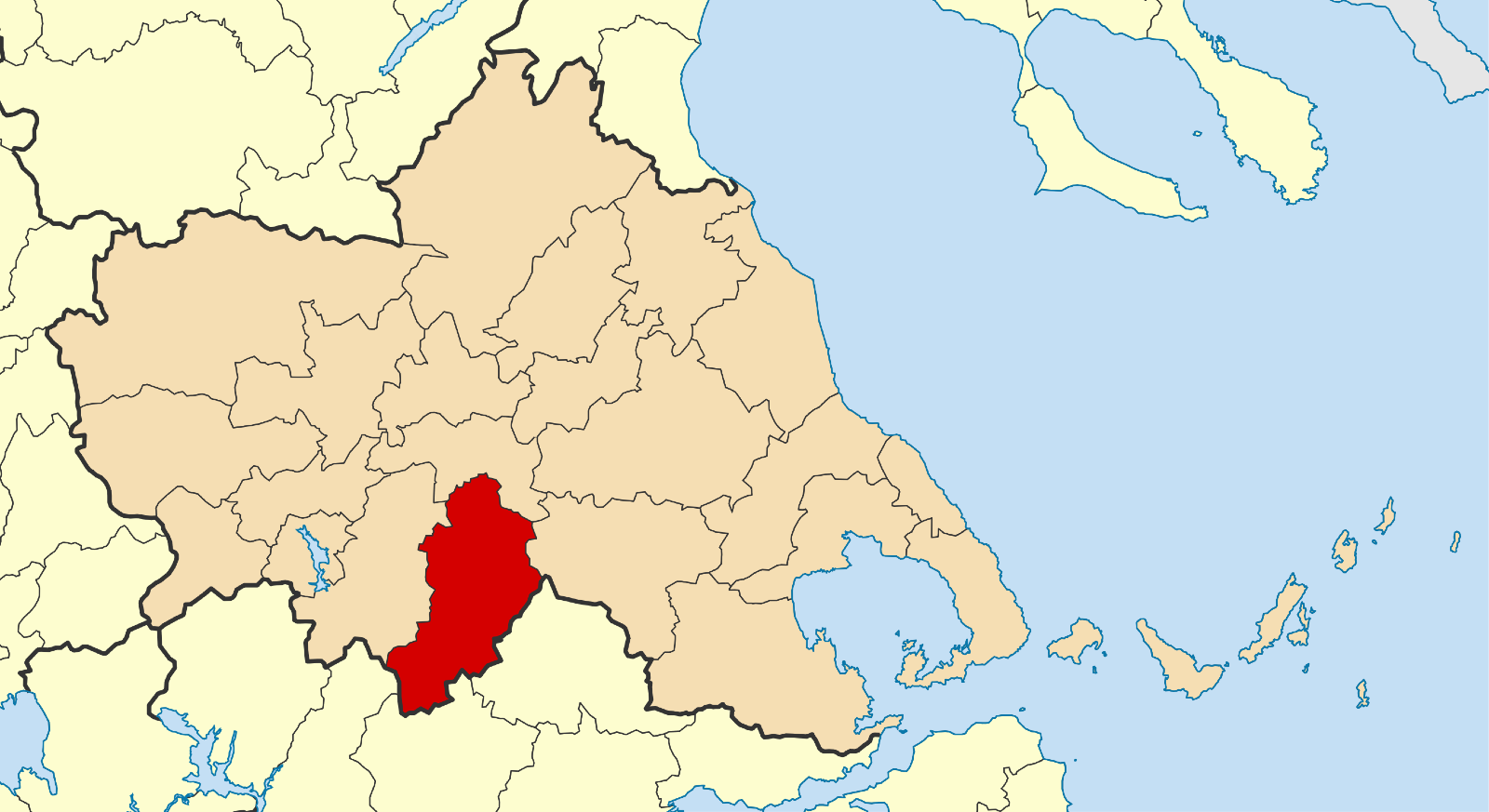 Locator map for Sofades municipality in Greek region Thessaly (2011)